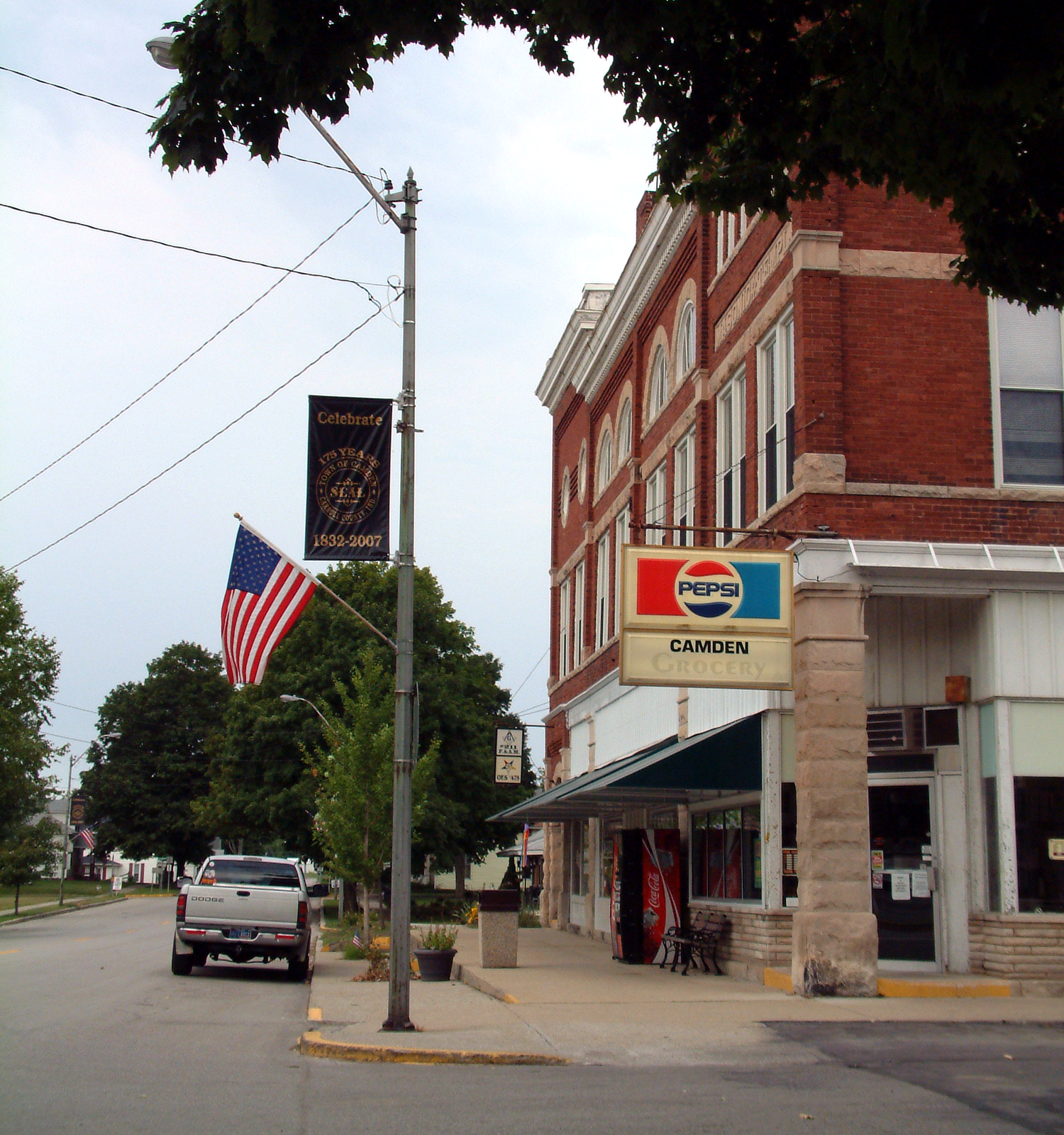 Main Street in the town of Camden, Indiana. Photo looks west toward Camden Grocery from near the intersection of Main and Monroe.